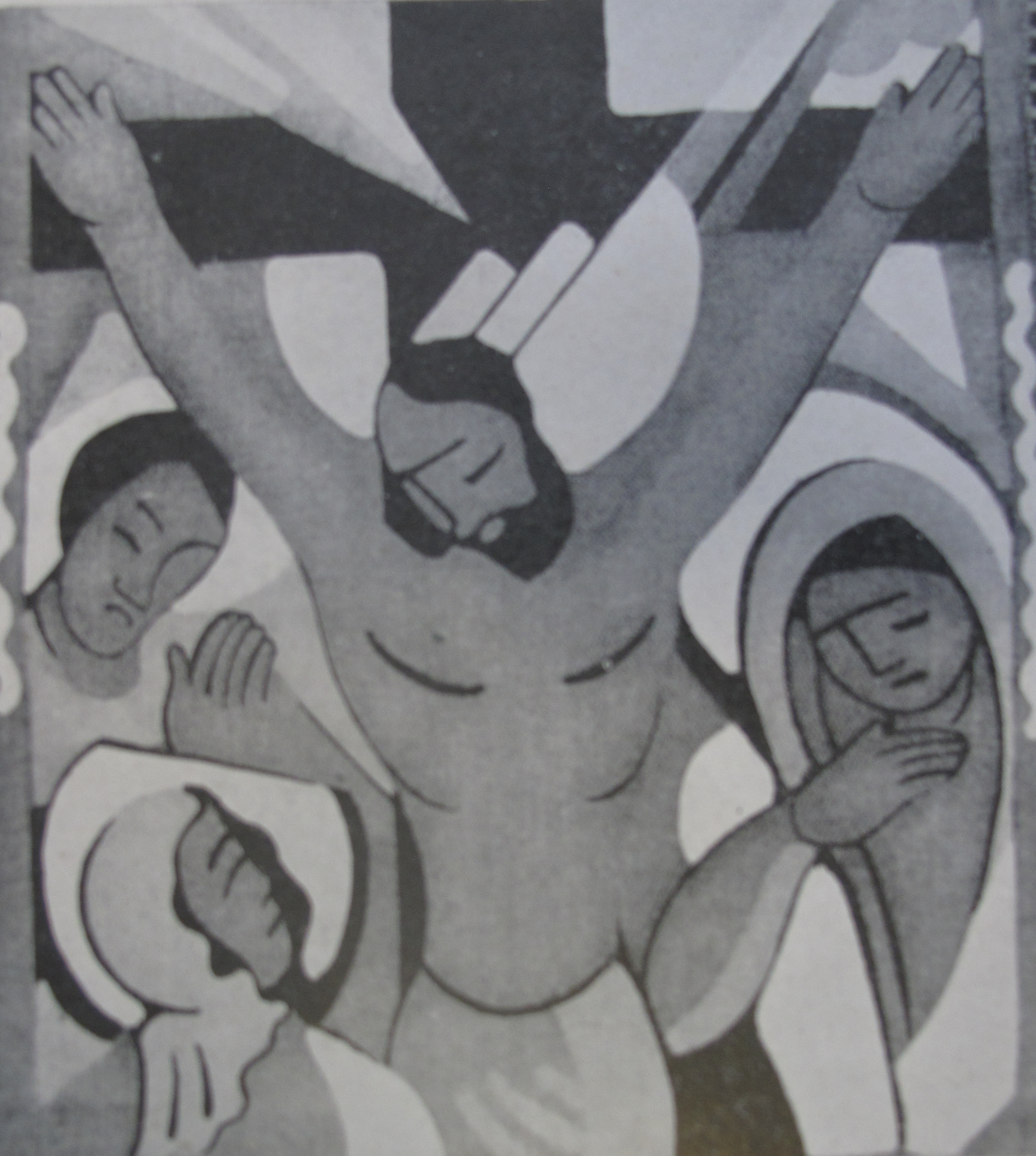 Detall de casulla al batic de Mme. N. Collet